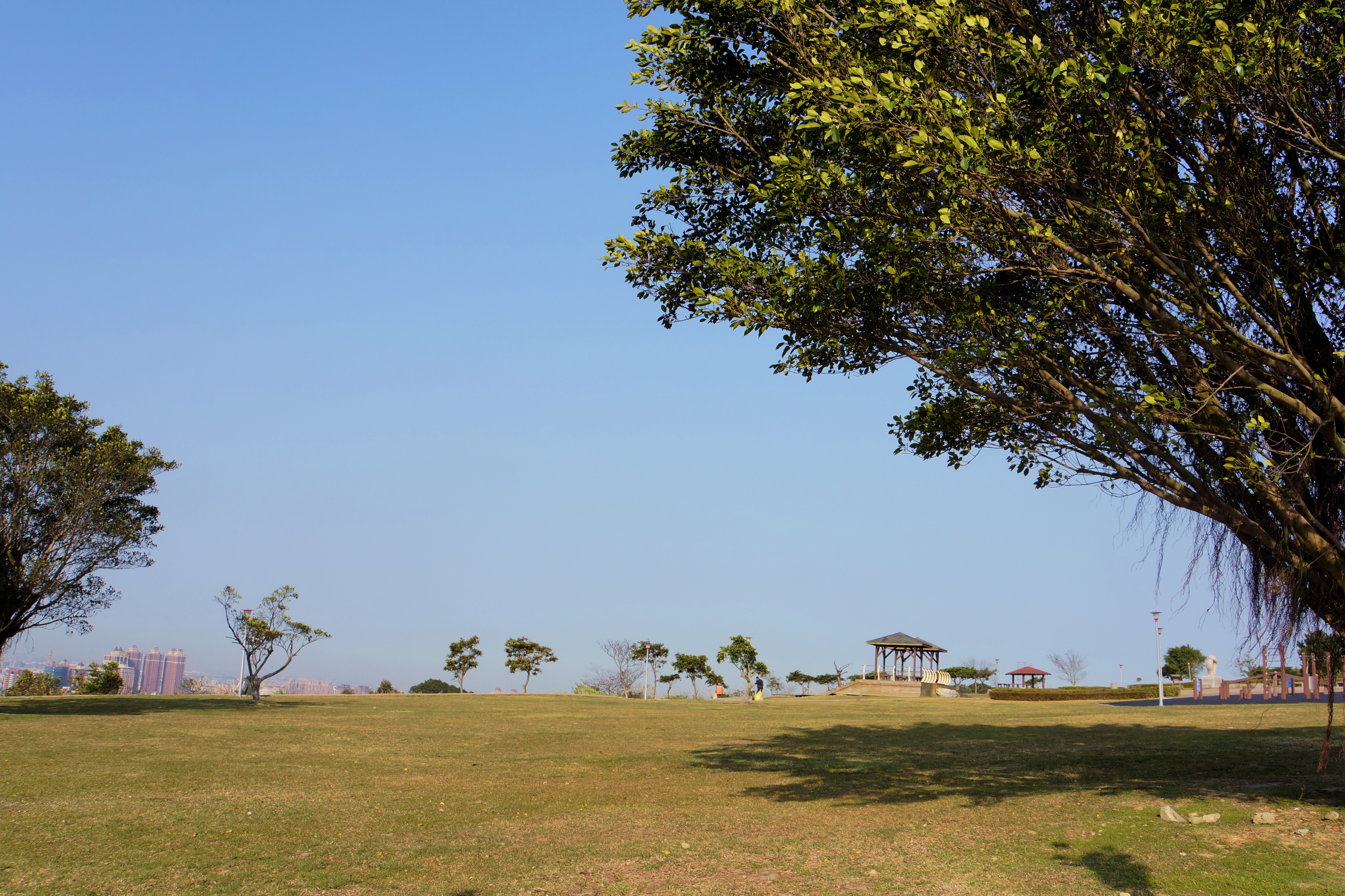 Hutoushan Environmental Restoration Park 虎頭山環保公園